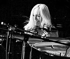 B&W photo of Lisa Hilton live in Hollywood, California